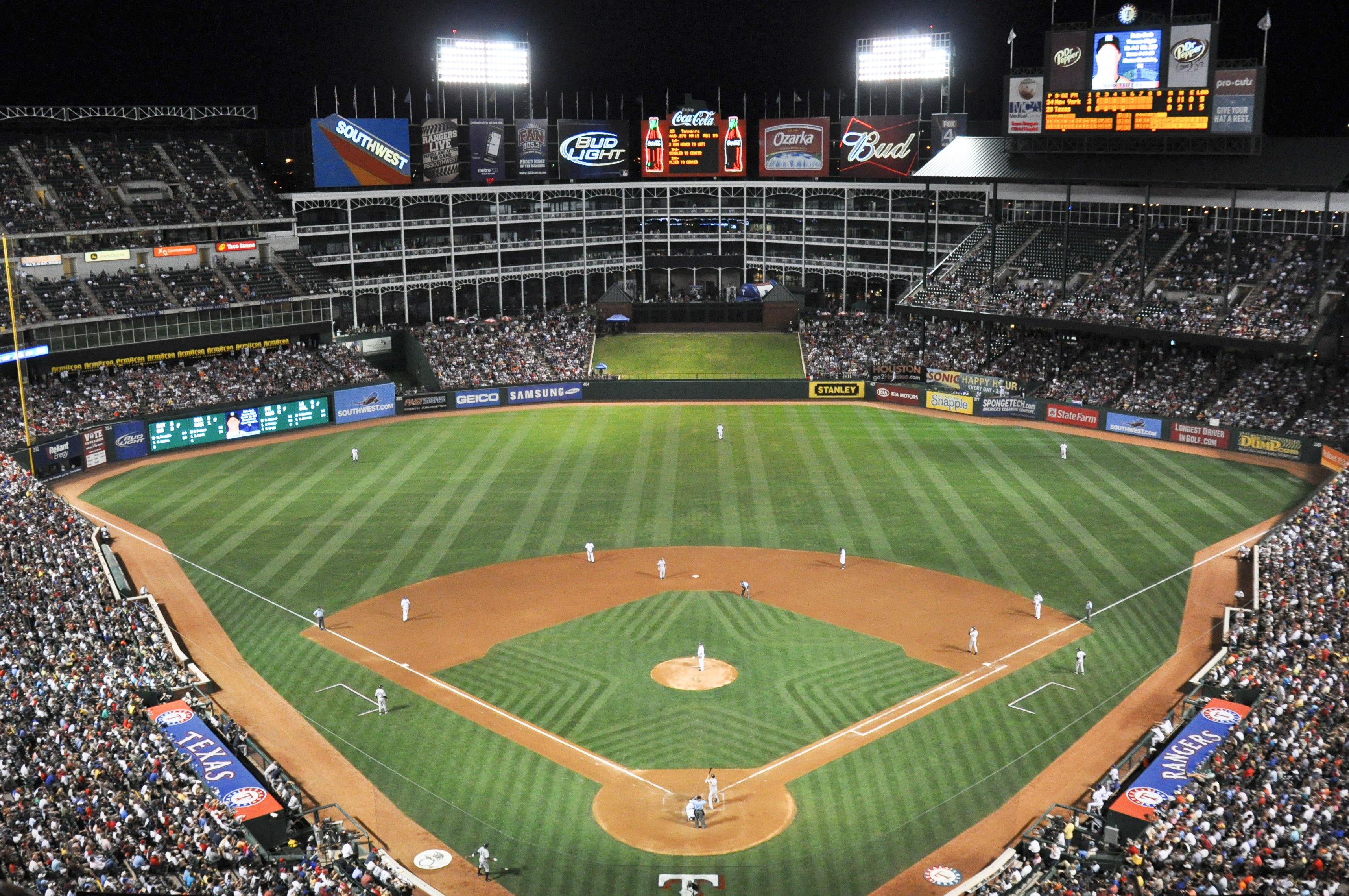 The Ballpark in Arlington home of the Texas Rangers during a game against the New York Yankees.